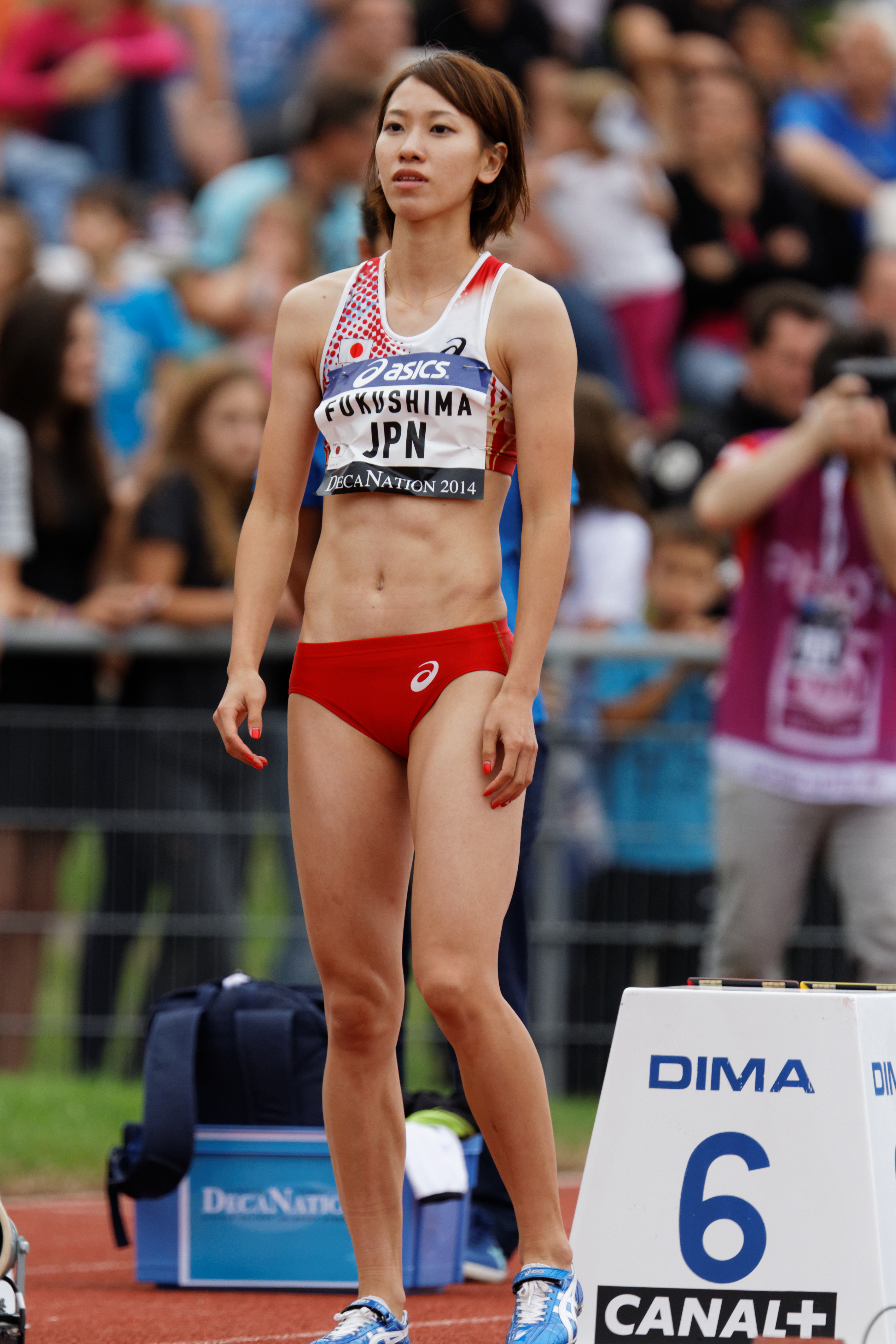 DécaNation 2014. 100m.